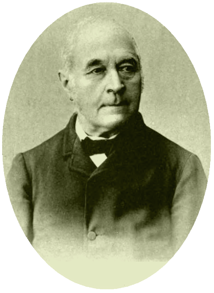 Ludwig Andreas Buchner (1813-1897), German chemist and pharmacist